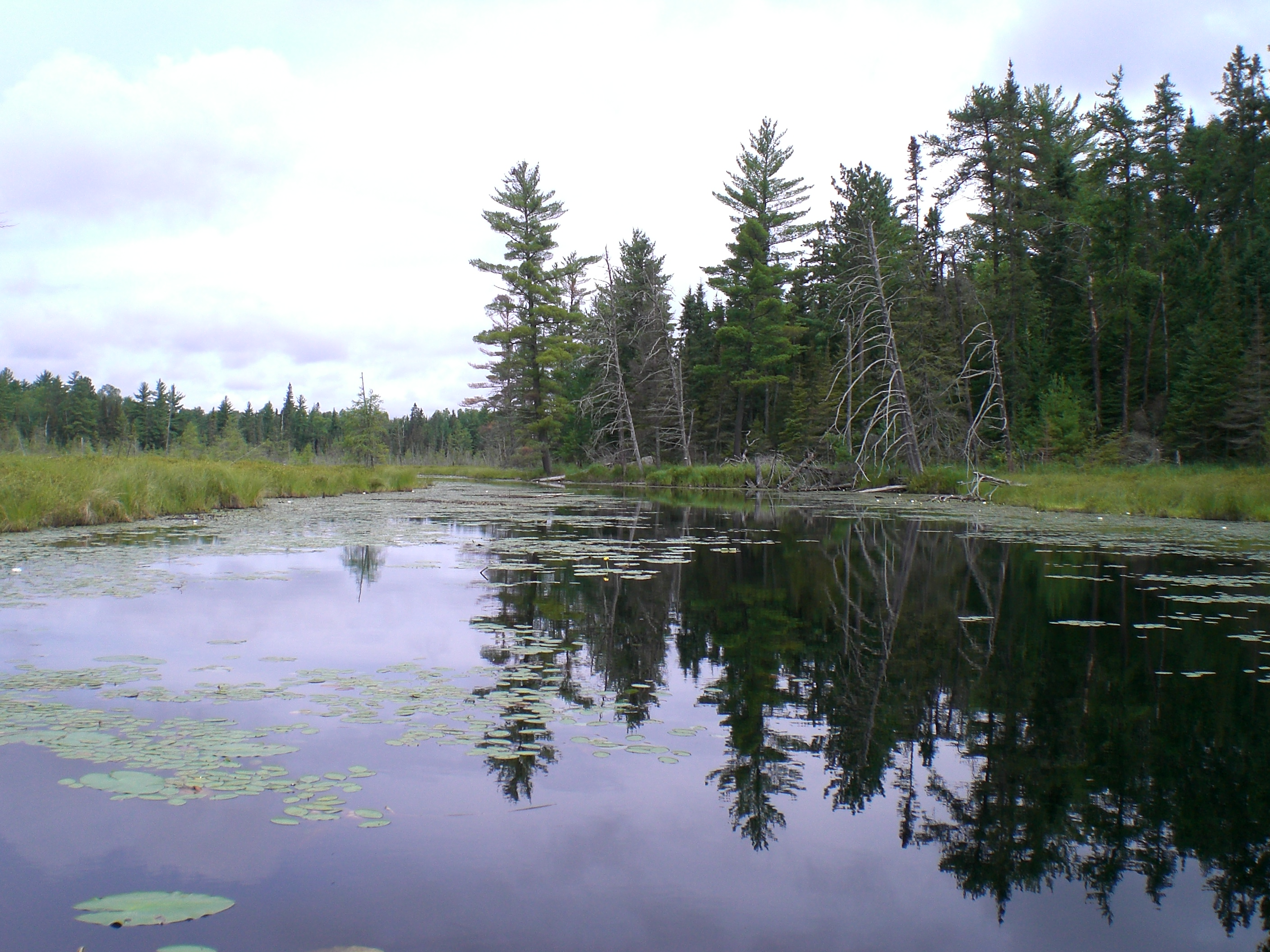 typical Boundary Waters Canoe Area Wilderness scene